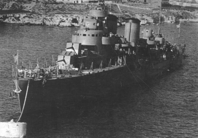 Soviet type 20 Leader of Destroyers «Tashkent»